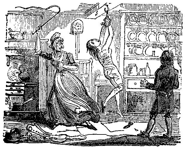 18th century illustration of Elizabeth Brownrigg flogging a foundling servant. From the Newgate Calendar. Over 200 years old. Public domain. File originally located at Image:Elizabeth Brownrigg flogging a servant.JPG